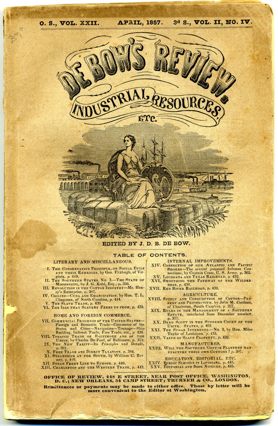 De Bows Review from 1857. This Review (Journal or Magazine) was published for around 25 years by J. D. B. De Bow. One of the interesting articles in this issue is a comentary on the Dred Scott case (The Dred Scott Decision) that had just been handed down by the U.S. Supreme Court. The case decision stated (in part) that because Scott was black, i.e. from Africa and a slave, he was not a citizen and therefore had no right to sue. This issue also has a short article on the economics of the Slave Trade. If you are interested in reading some of these and other articles, see this link